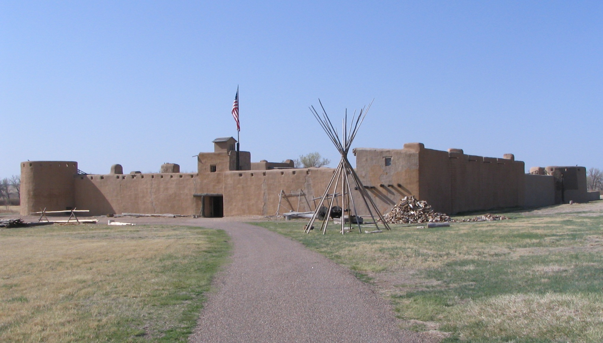 Bent's Old Fort National Historic Site, Colorado, USA.